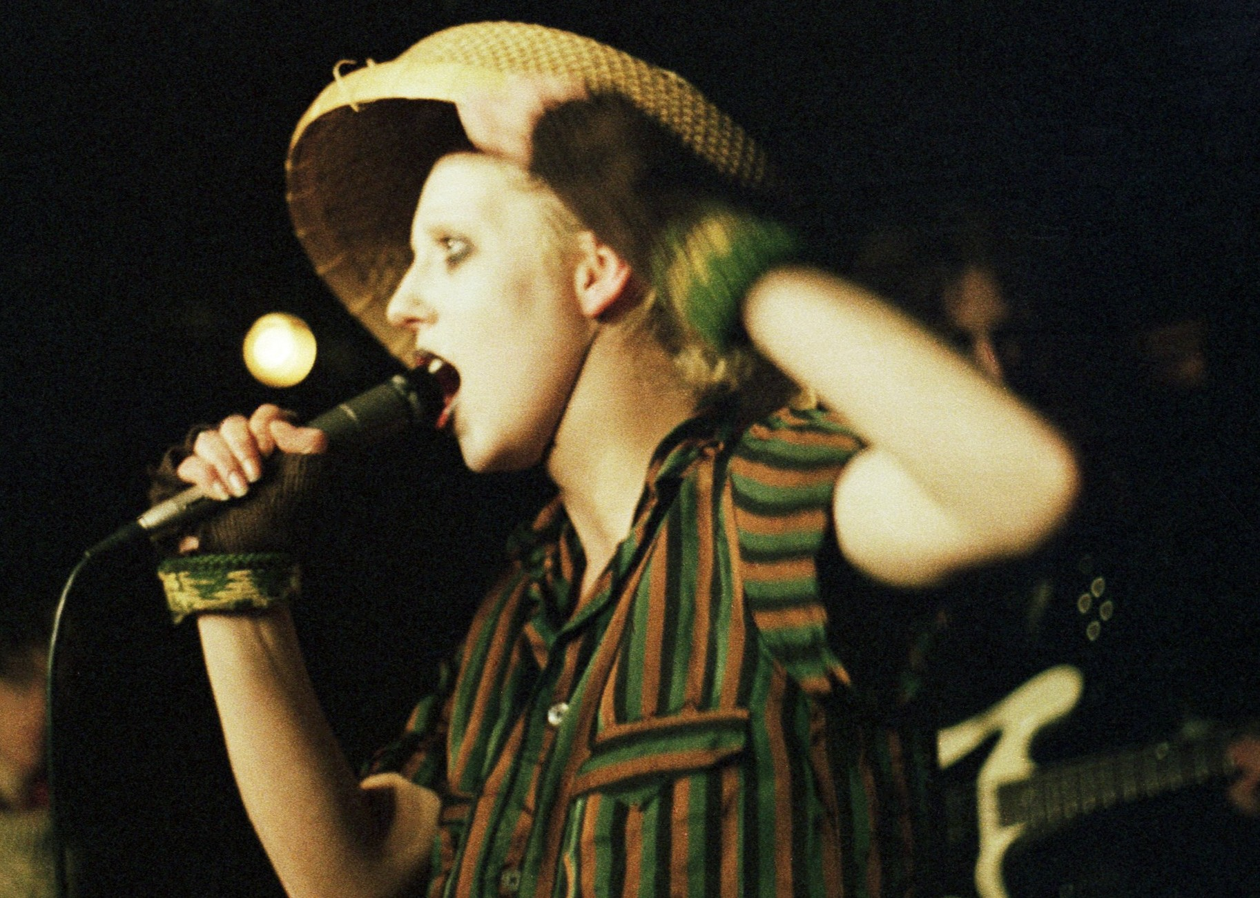 Jayne Casey, The Pink Military Stand Alone, Live at Eric's Liverpool, December 7 1978